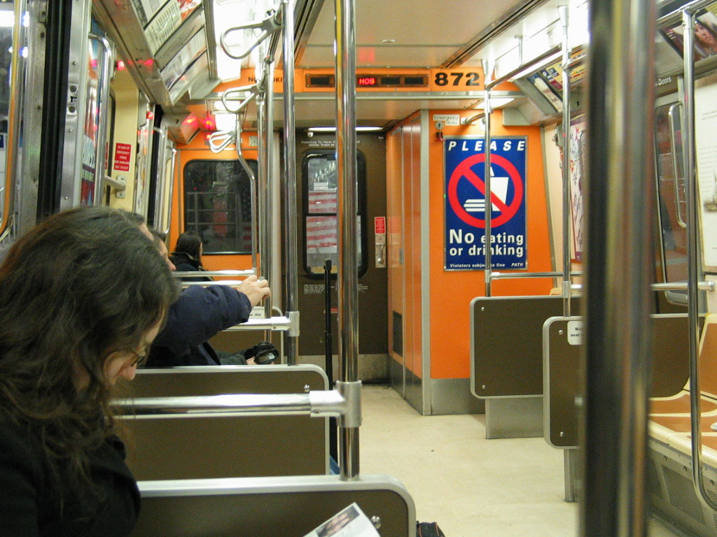 In the front car of the PATH train